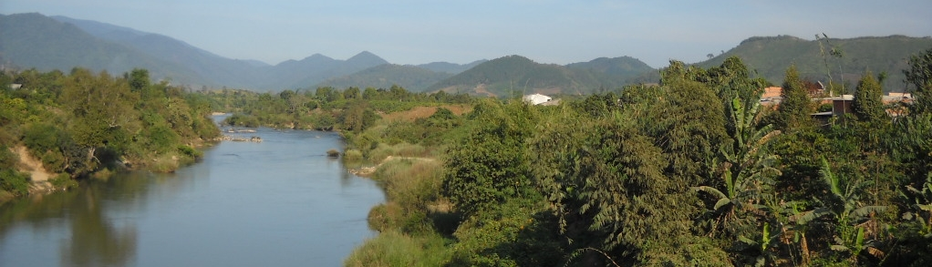 Đa Mrong River at Đam Rông District, Lâm Đồng Province, Việt Nam